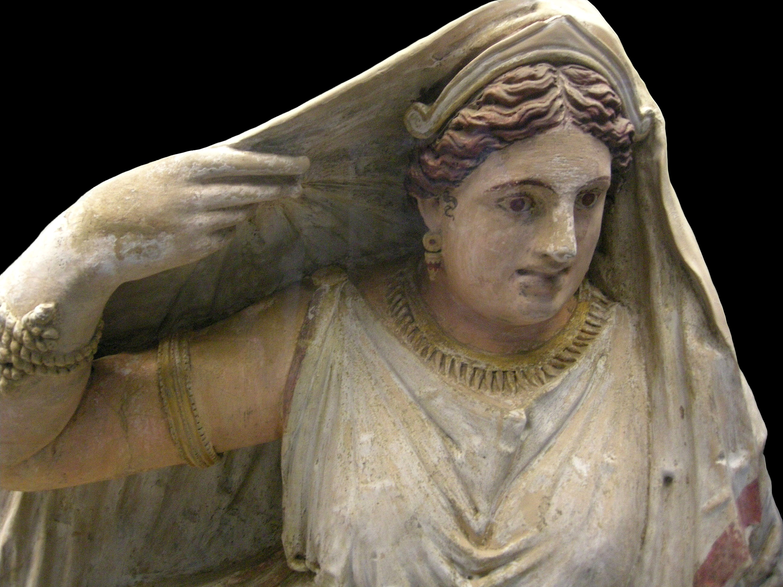 The dead woman, her name inscribed on the base of her chest, was clearly a well-to-do lady. She reclines upon a mattress and pillow, holding an open-lidded mirror in her left hand and raising her right hand to adjust her mantle. She wears a tunic (chiton) with high girdle and a bordered cloa, and her jewellery comprises a tiara, earrings, necklace, bracelets and finger-rings. The skeleton from the sarcophagus was found to belong to a woman who was about fifty years old at the time of her death.